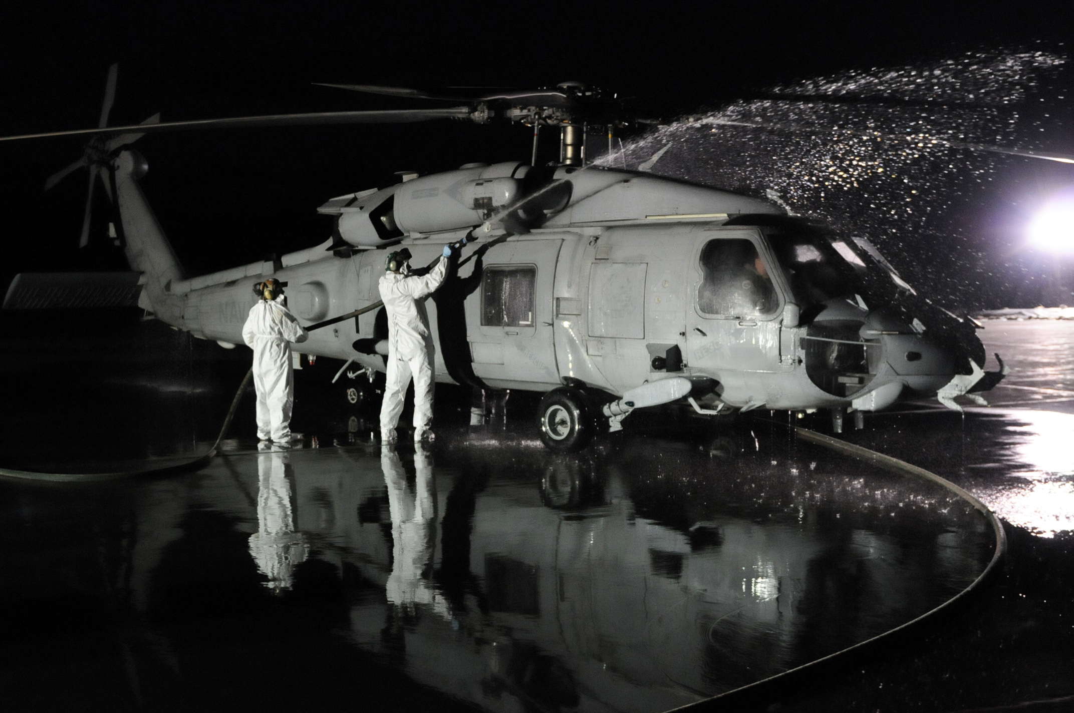 Helicopter is decontaminated for radioactivity following humanitarian operations over Japan